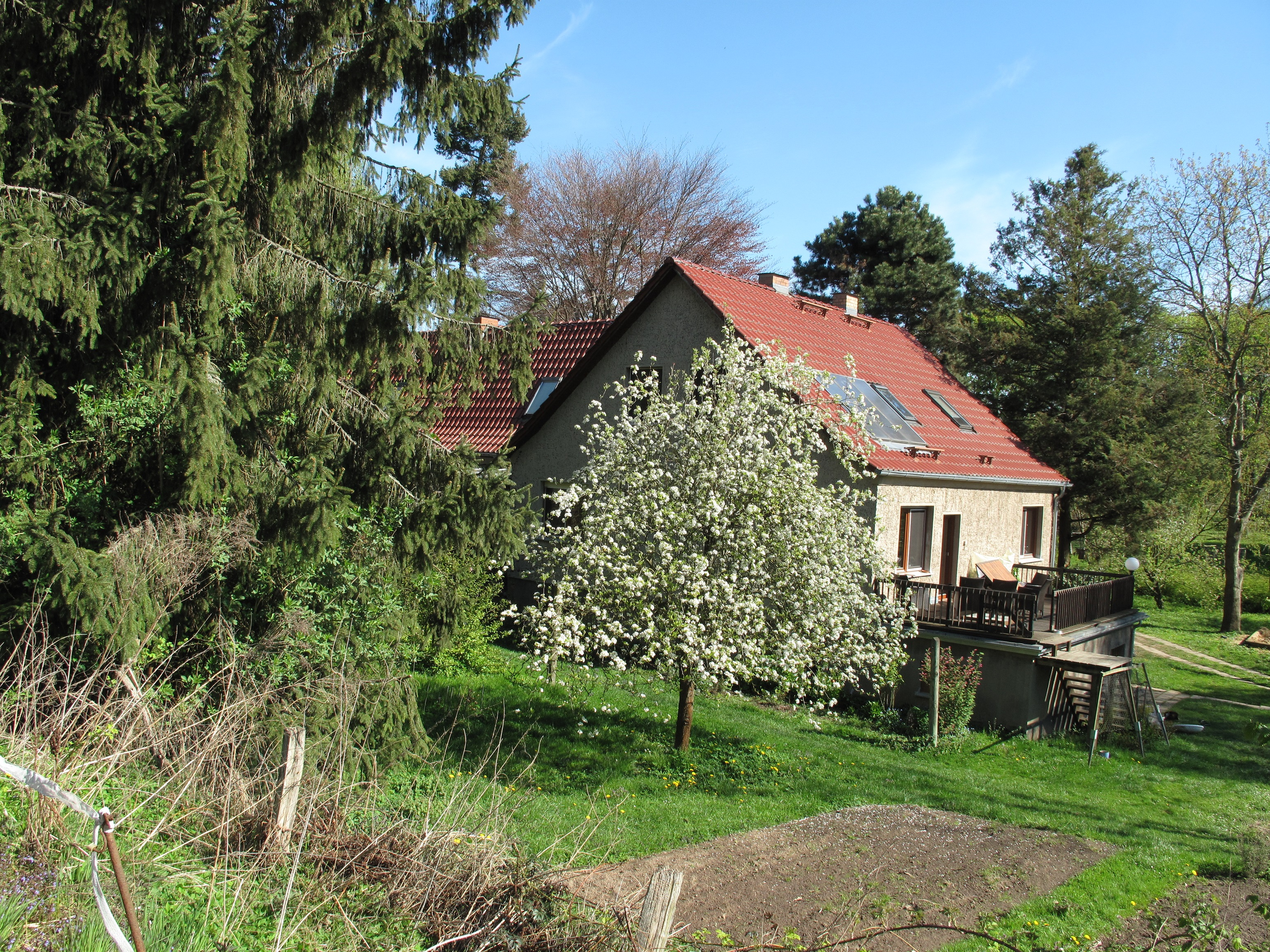 Residential building on the „Hof Marienhöhe“ in April 2014. Marienhöhe is a part (settlement, estate; german: Wohnplatz) and organic farm of Bad Saarow, District Oder-Spree, Brandenburg, Germany. The place was established in 1880 as folwark of the manor Saarow. Since 1928 the „Hof Marienhöhe“ works on the biodynamic agriculture-method (Demeter international) and is considered to be the oldest farm working with this method in Germany.